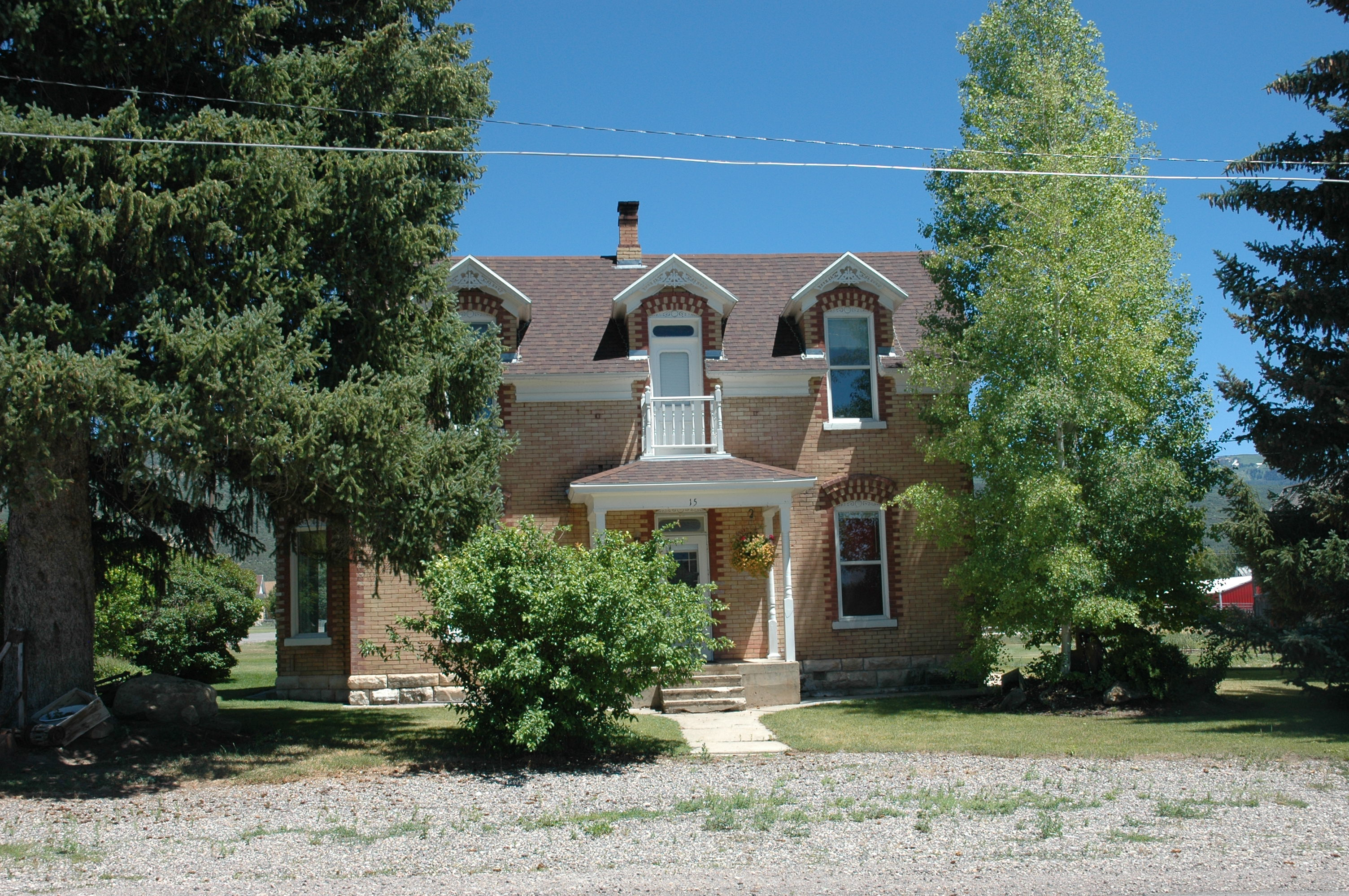 The James Anderson House, a historic home in Fairview, Utah, United States.